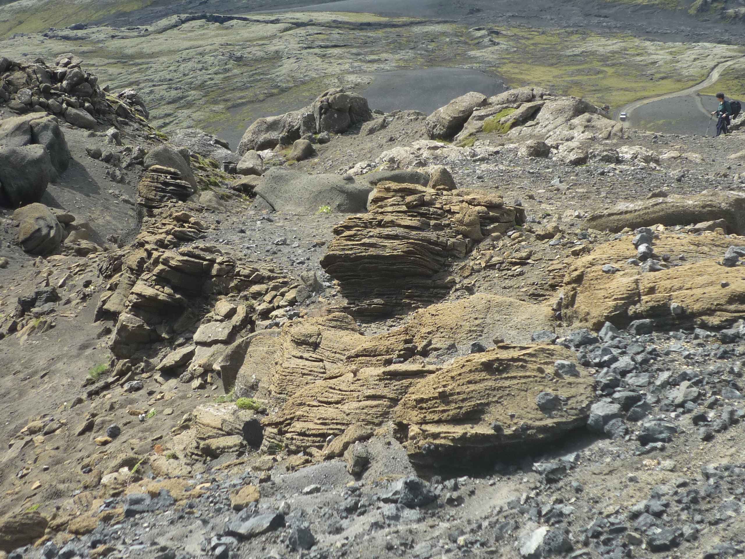 Hyaloclastite on Laki, Iceland